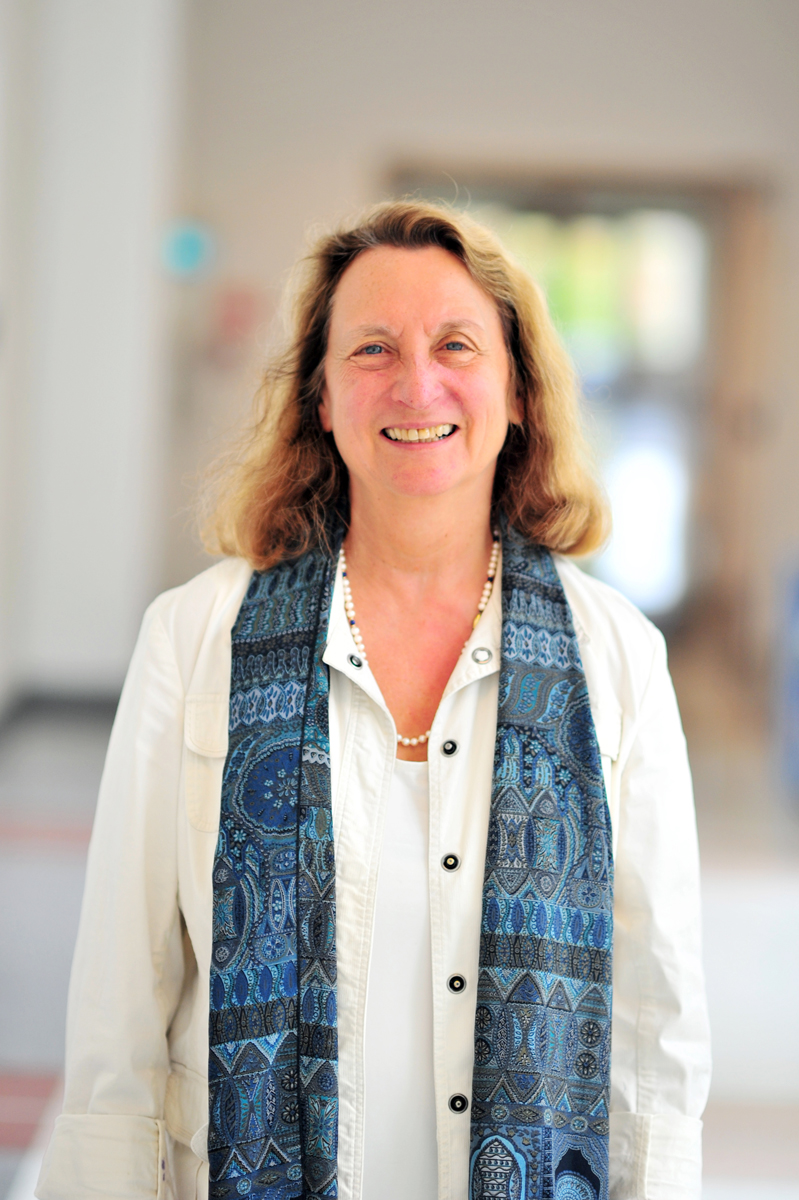 Dr. Elaine Oran - Aerospace Engineering, University of Maryland at College Park. Alan P. Santos copyright